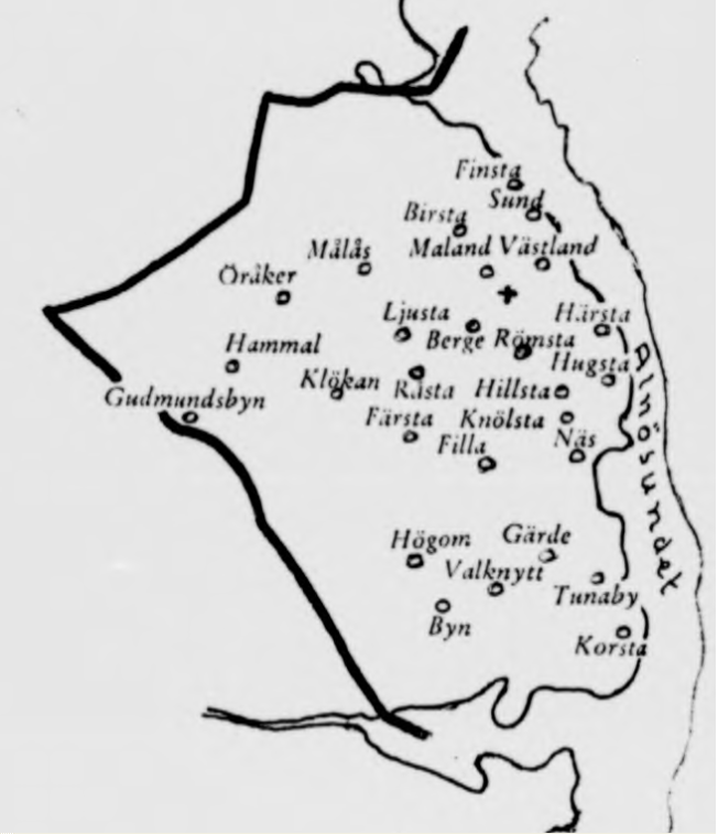 Map of villages in Skön parish (Y county) from middle ages until the industrialization in the 1850s